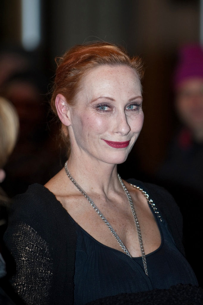 German actress Andrea Sawatzki at the 60th Berlin International Film Festival